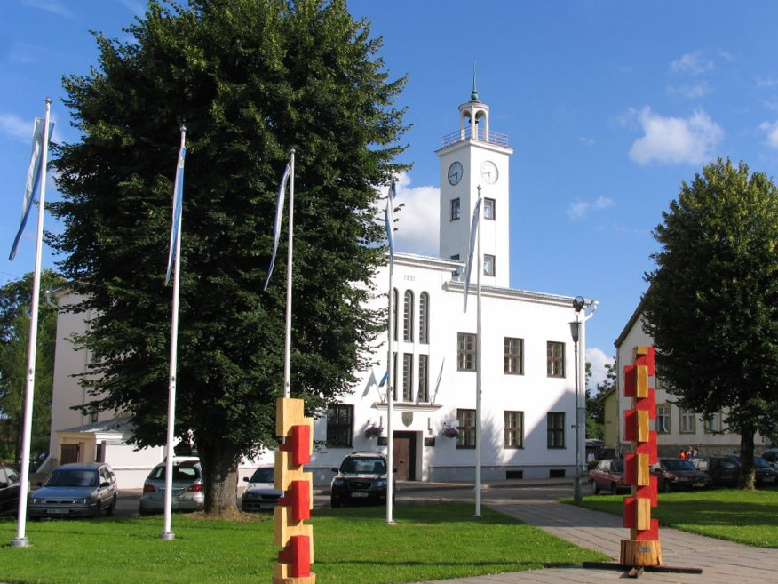 Viljandi town hall, Estonia